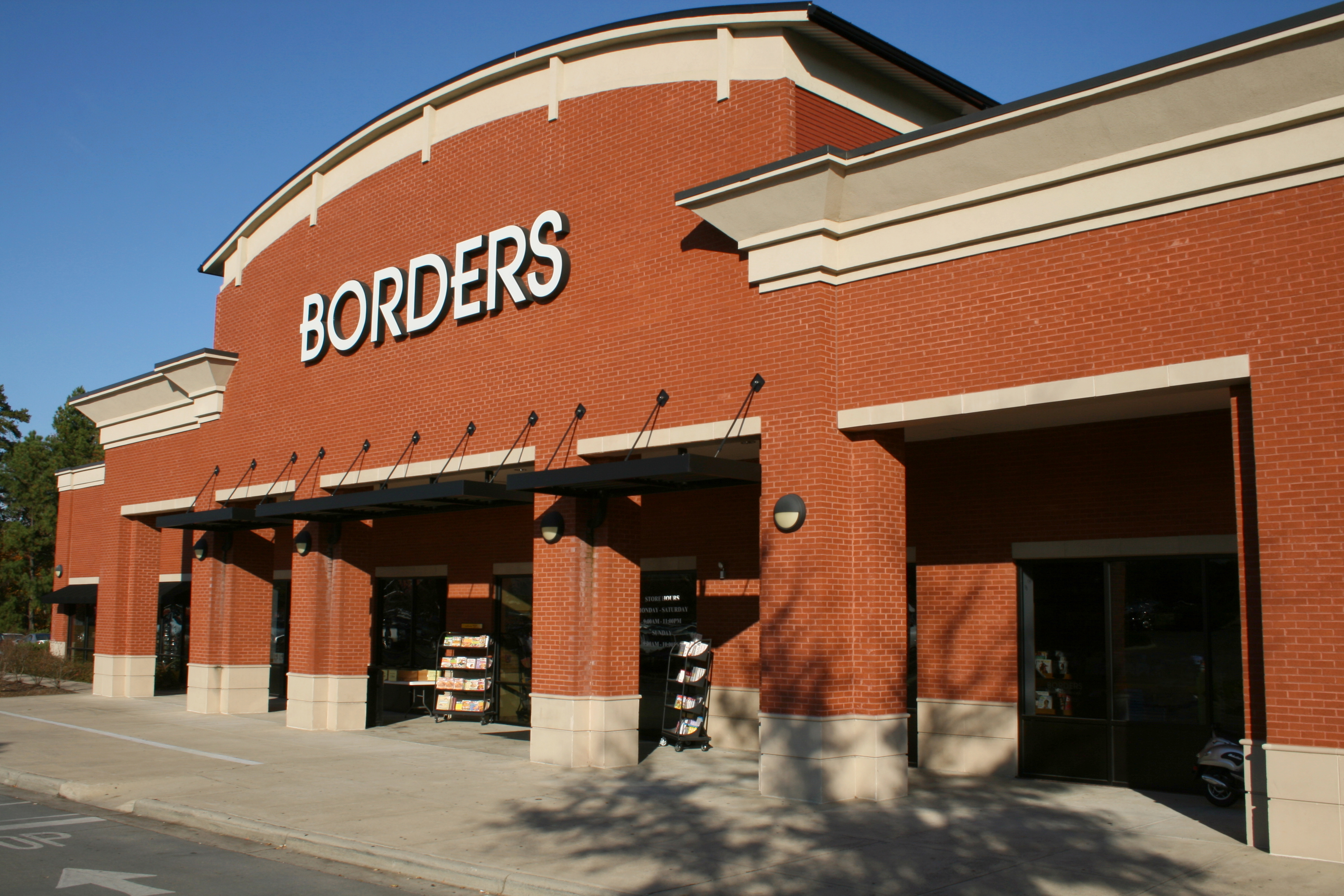 Borders Books at 1807 Fordham Boulevard in Chapel Hill, North Carolina.